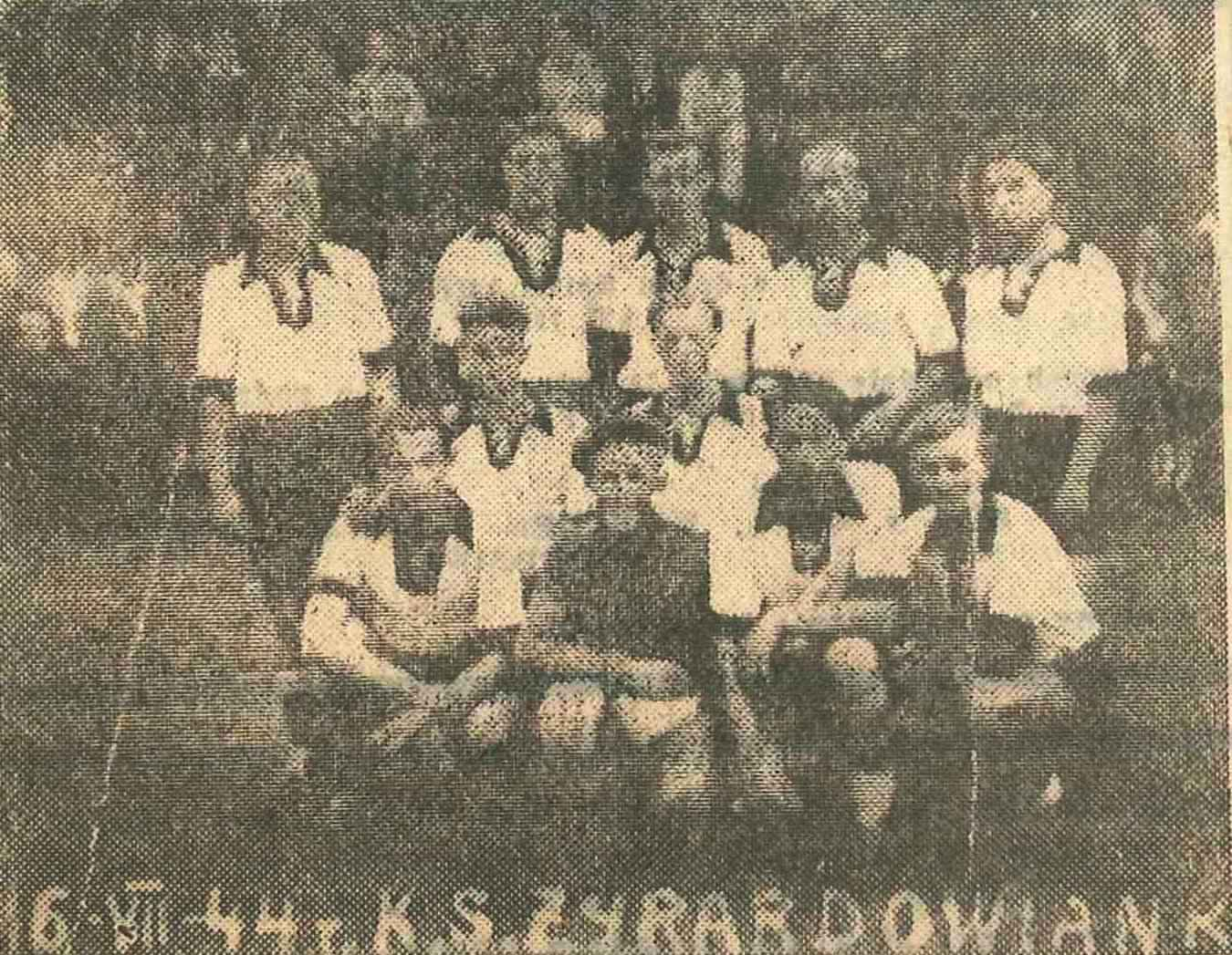 Team of Żyrardowinka during World War II